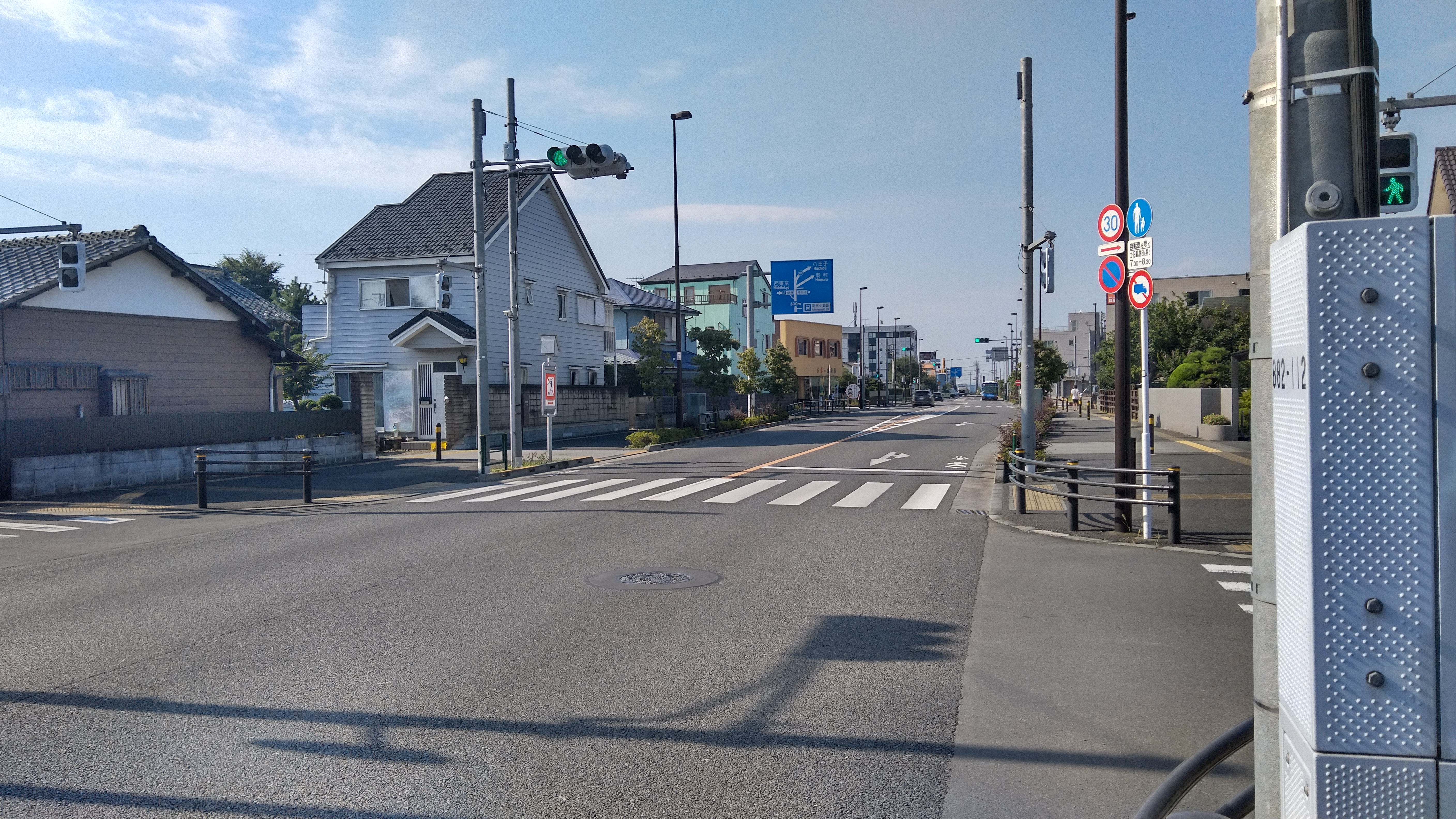 Near Hakonegasaki Station east exit, Tokyo Metropolitan Route 166 widened to introduce the Tama city monorail